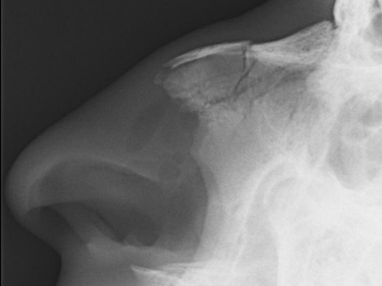 Medical X-ray of nasal bone fracture. Image may not be to scale. ICD-10 S02.2, ICD-9 802.0